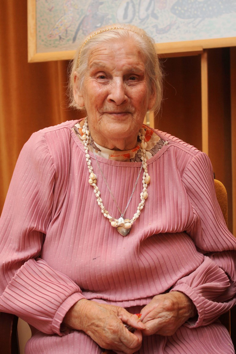 Portrait of Genowefa Magiera